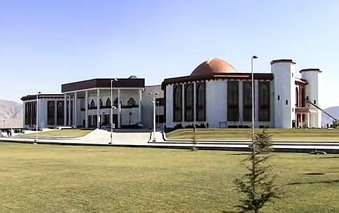 Afghan parliament building 2015, Kabul